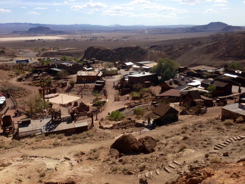 A view of Calico, CA.